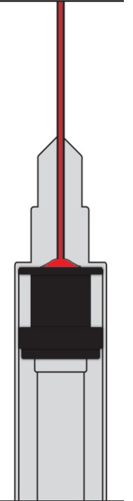 Low dead space 1-ml insulin syringe